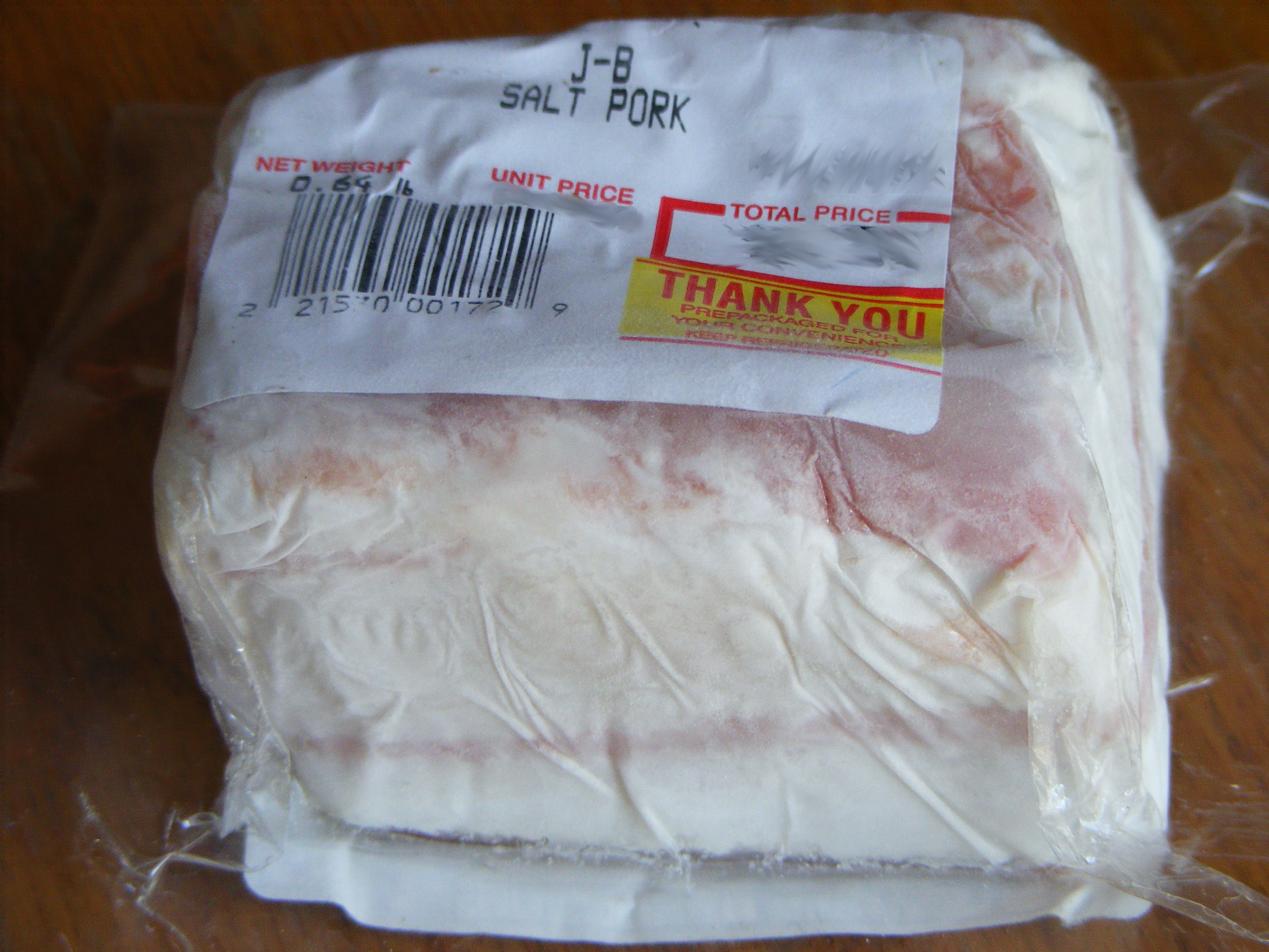 Packaged salt pork product.